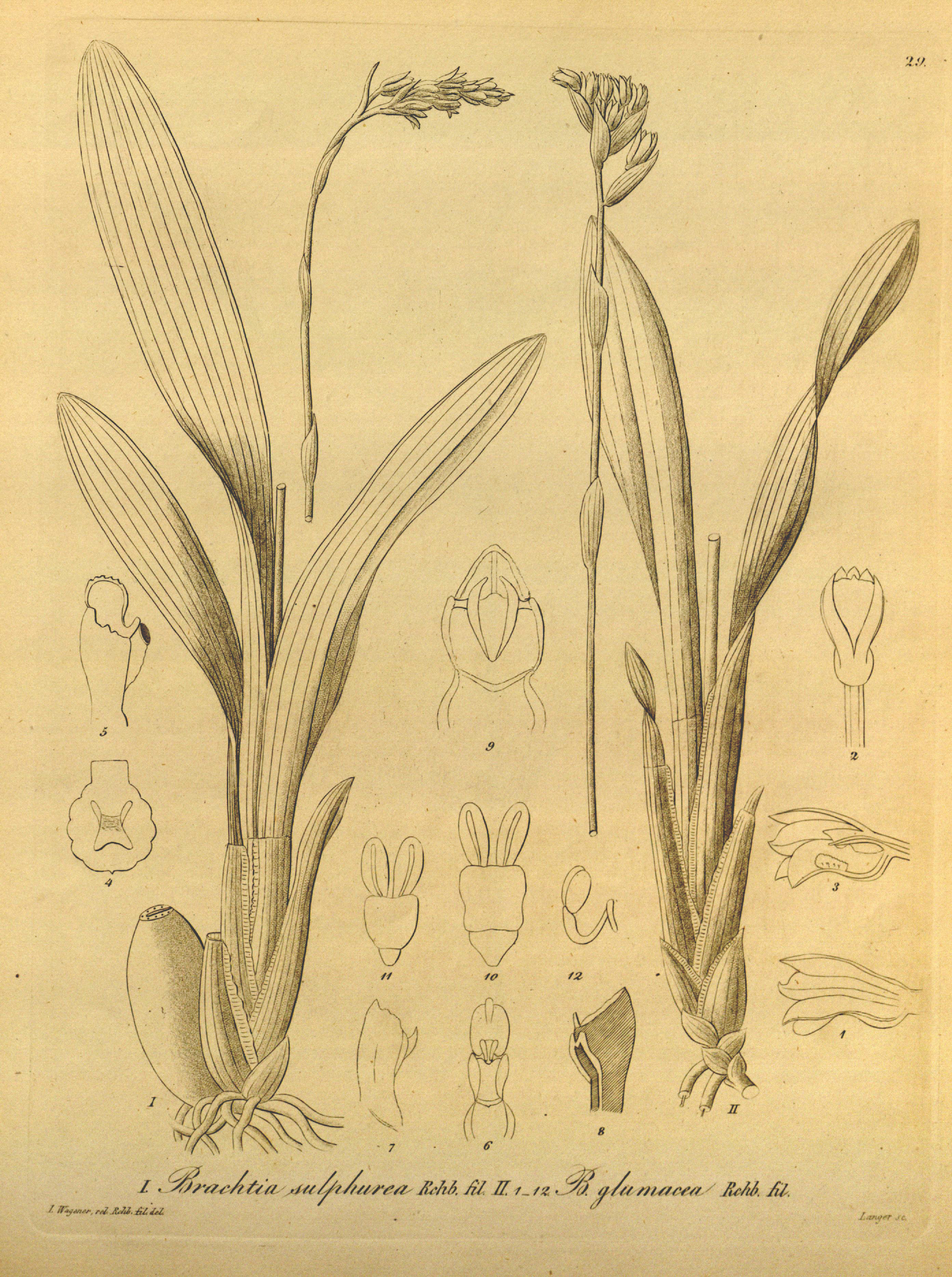 Illustration of: I. Brachtia sulphurea II. Brachtia glumacea